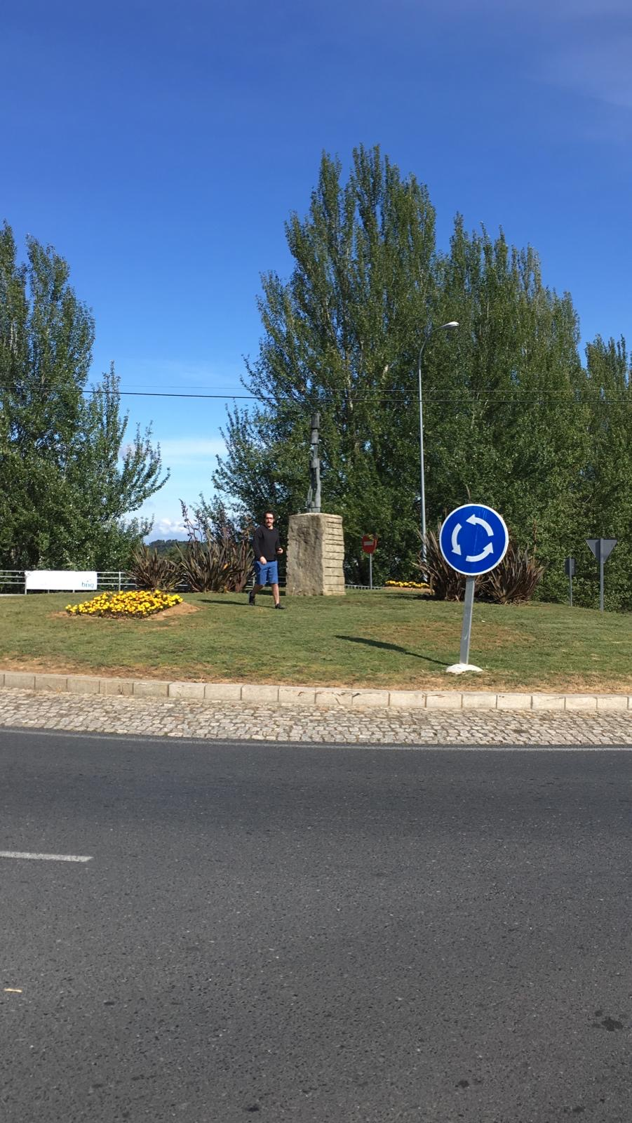 transatlática